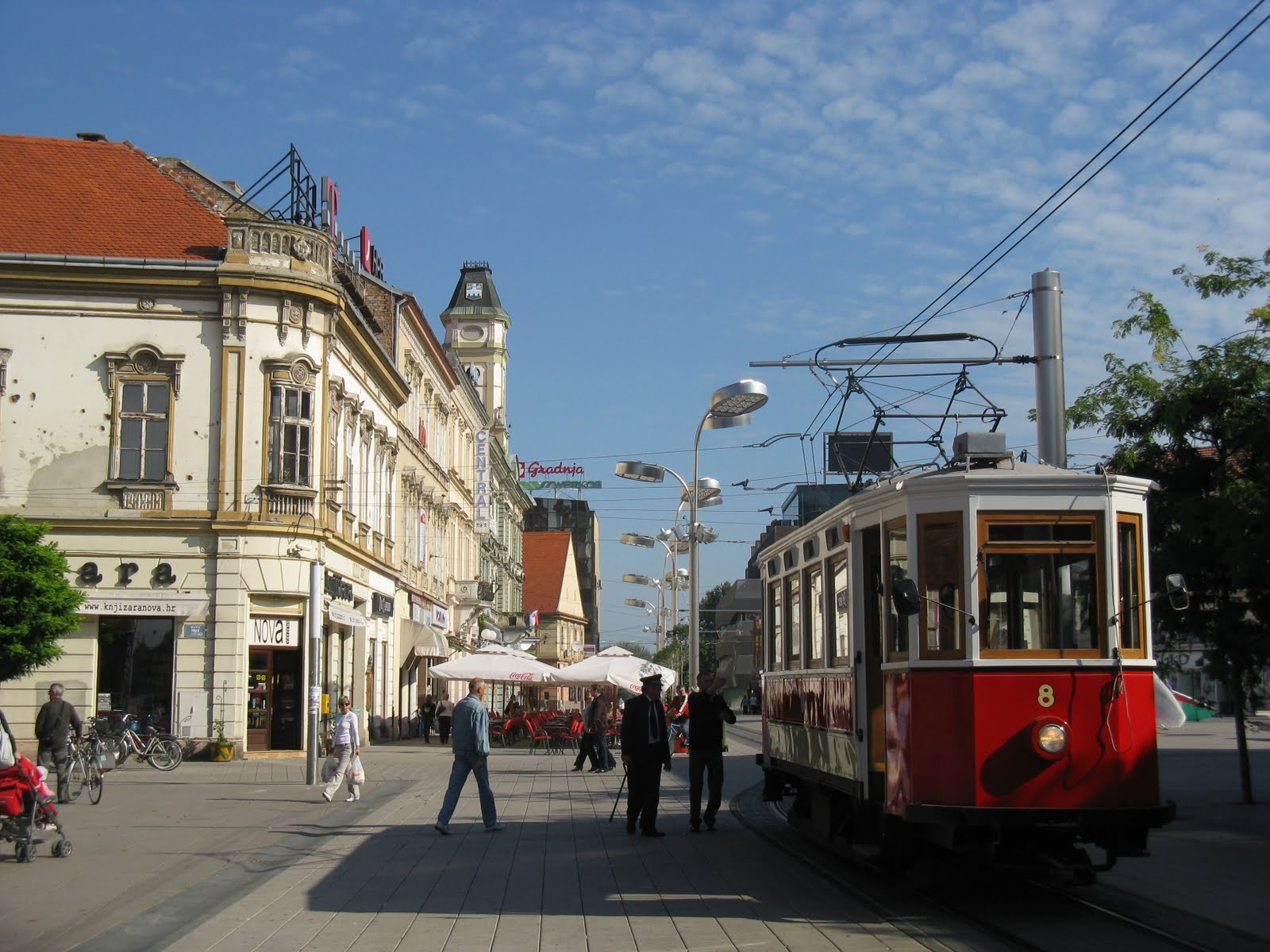 Tram at the Ante Starčević Square and Hotel Central in the Osijek, Croatia.